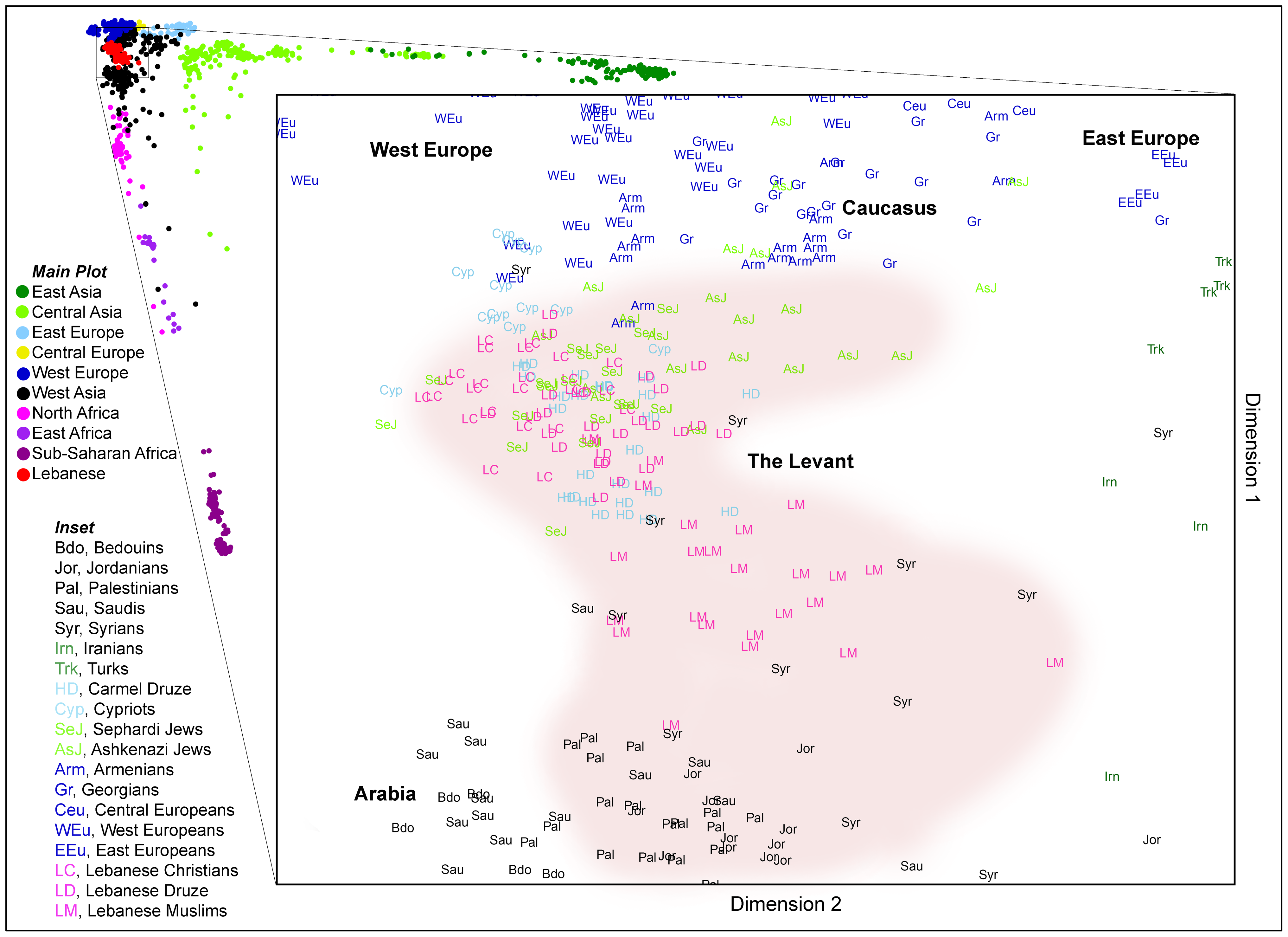 Main plot shows global diversity using 50 populations. Inset shows Levantine populations in their regional and religion context. The Levant region includes Lebanon, Syria, Jordan, Israel, Palestine, and often Cyprus and historical Armenia. The Levantine core cluster is shaded in pink.